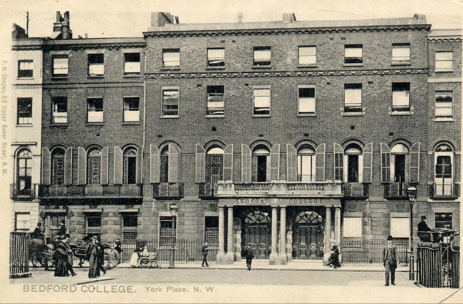 Bedford College in York place - photographer is unknown but guess 1908